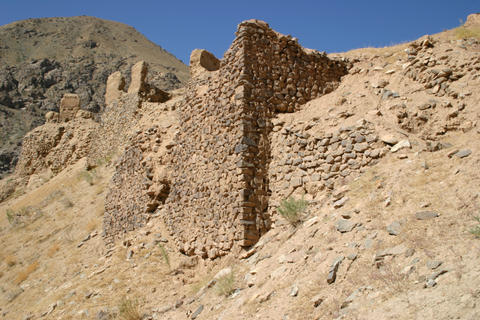 Qasr Zarafshan, overlooking the Minaret of Jam